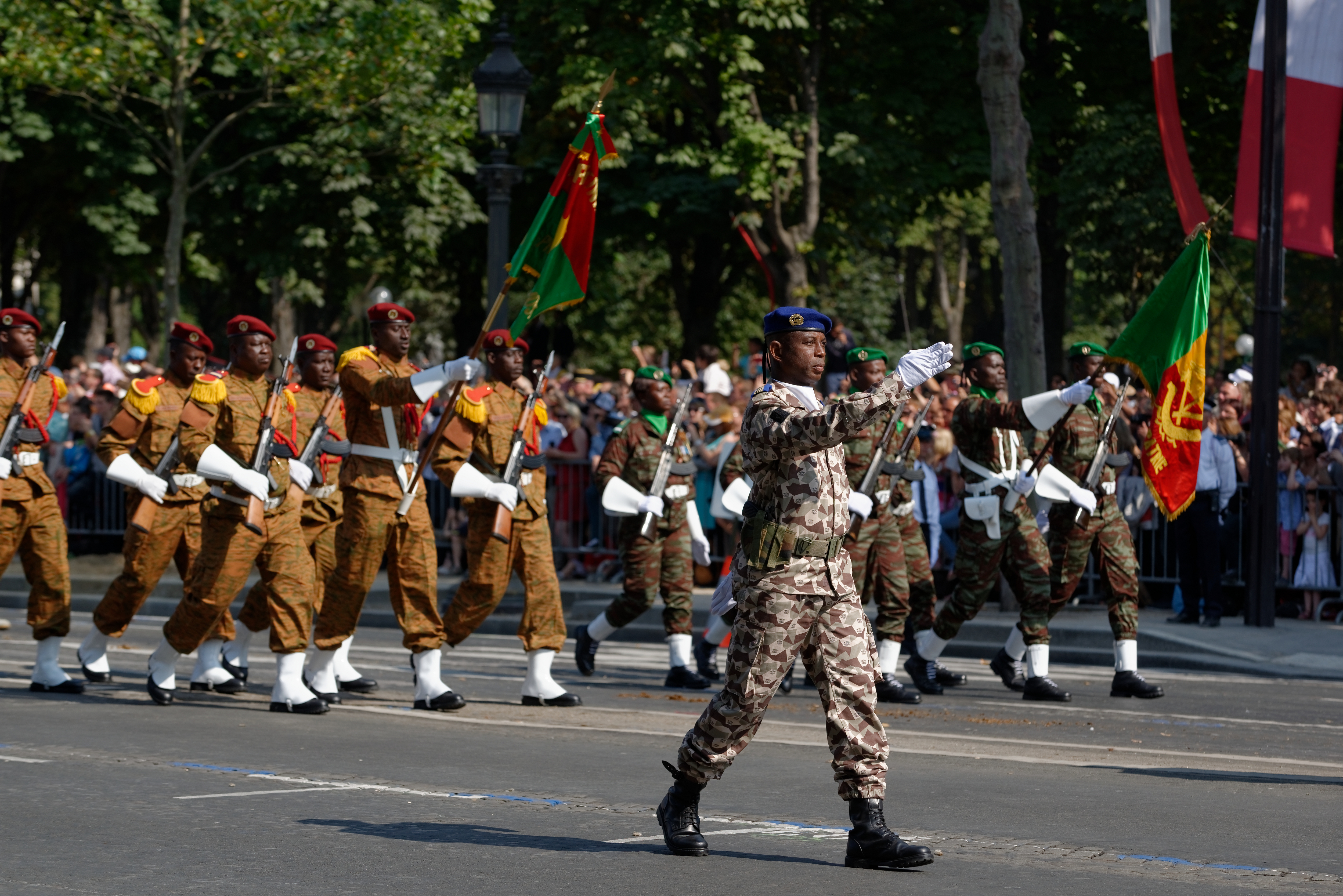 Colour guard of the Burkina Faso (foreground) and the Benin (background) armed forces, members of AFISMA, in the Bastille Day 2013 military parade on the Champs-Élysées in Paris.